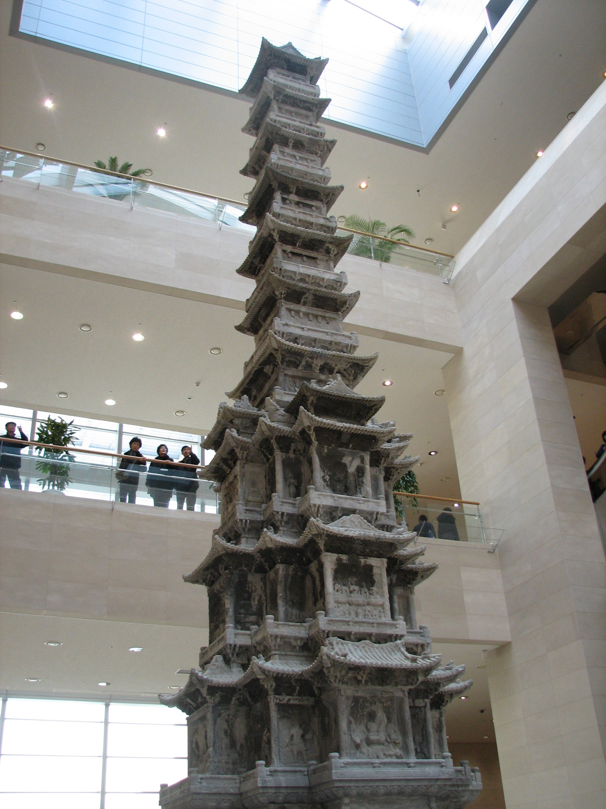 A Goryeo Dynasty ten-story pagoda which now stands at the National Museum of Korea.